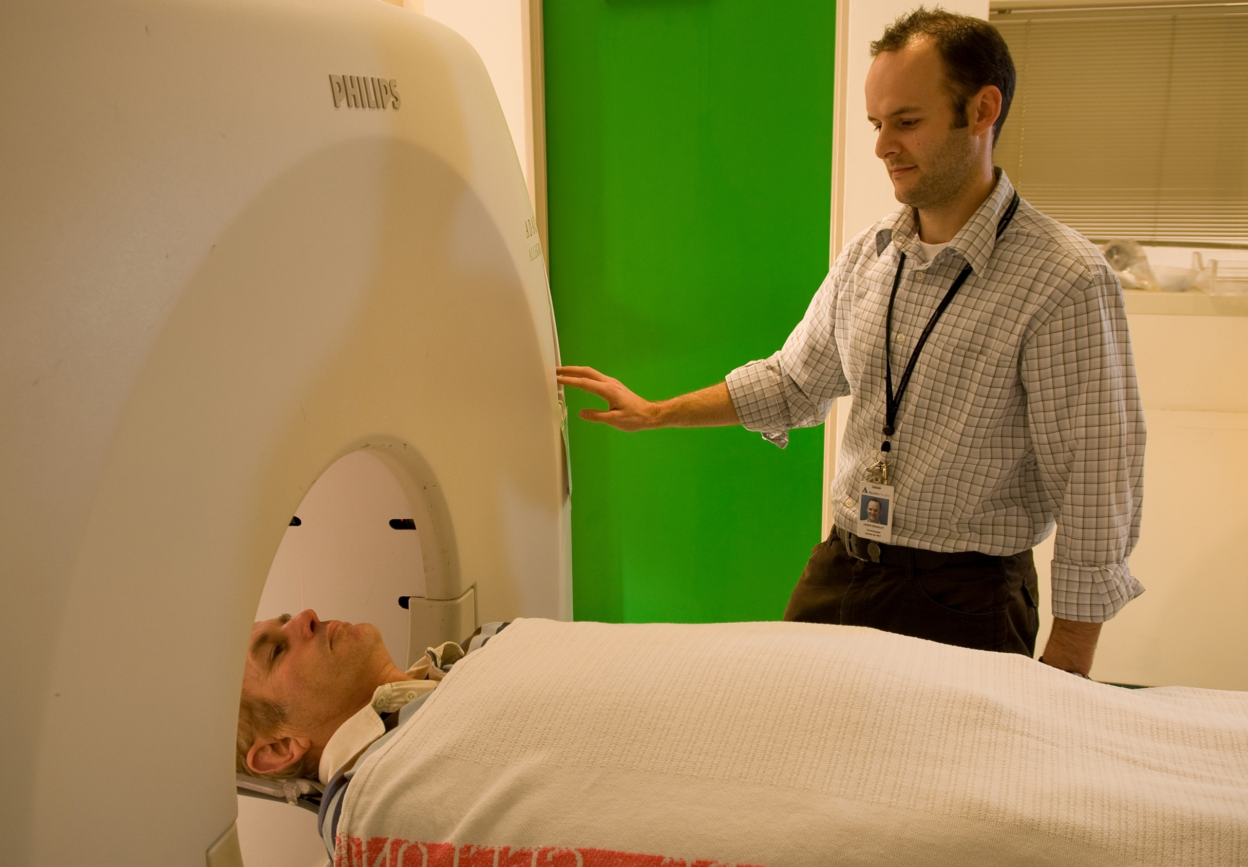 The Australian Imaging, Biomarker and Lifestyle (AIBL) Flagship Study of Ageing, has found a way to bring forward the detection of Alzheimer's disease by up to 18 months using a brain imaging technique. Alzheimer's disease is characterised by very highlevels of a molecule called beta-amyloid in the brain. PiB PET can show the beta-amyloid in the brain. AIBL researchers have shown that this scan can be used as a diagnostic tool to potentially distinguish patients with early Alzheimer's disease from others without the disease, even before clear signs of memory loss are present. Dementia, most of which is caused by Alzheimer's disease, affects over 200 000 Australians, with the number expected to rise to over 700 000 by 2050. Alzheimer's was estimated to have cost .6 billion in 2002. Delaying the onset of Alzheimer's disease by just five years has been calculated to reduce new cases by 50 per cent, with cumulative Australian health cost sa